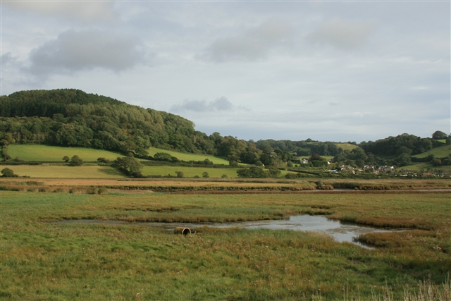 Hawkesdown Hill and Axmouth From the Seaton Tramway.